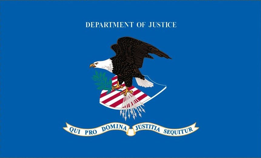 Flag of the United States Department of Justice (DOJ). See 28 C.F.R. § 0.146; see also 41 id. (JPMR) § 128-1.5008(a)(1) (describing the flag of the Department of Justice, which contains the Department's seal, as follows: "the ... flag shall consist of a rectangular base background of ultramarine blue, bearing an eagle on a shield, a scroll and the inscription 'Department of Justice.' The eagle faces to the left, with its left claw holding 13 arrows with the tips facing down. Its right claw holds an olive branch. The shield consists of a white base, a blue chief and six scarlet stripes. The scroll shall read in bold blue letters, 'QUI PRO DOMINA JUSTITIA SEQUITUR,'.... The inscription 'DEPARTMENT OF JUSTICE' shall be in bold white letters, centered above the eagle. The fringe shall be white." The section also describes the various flags of the Attorney General, the Deputy Attorney General, the Associate Attorney General, the Solicitor General, and the Assistant Attorneys General).